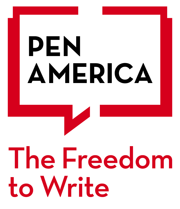 Non profit logo for PEN America